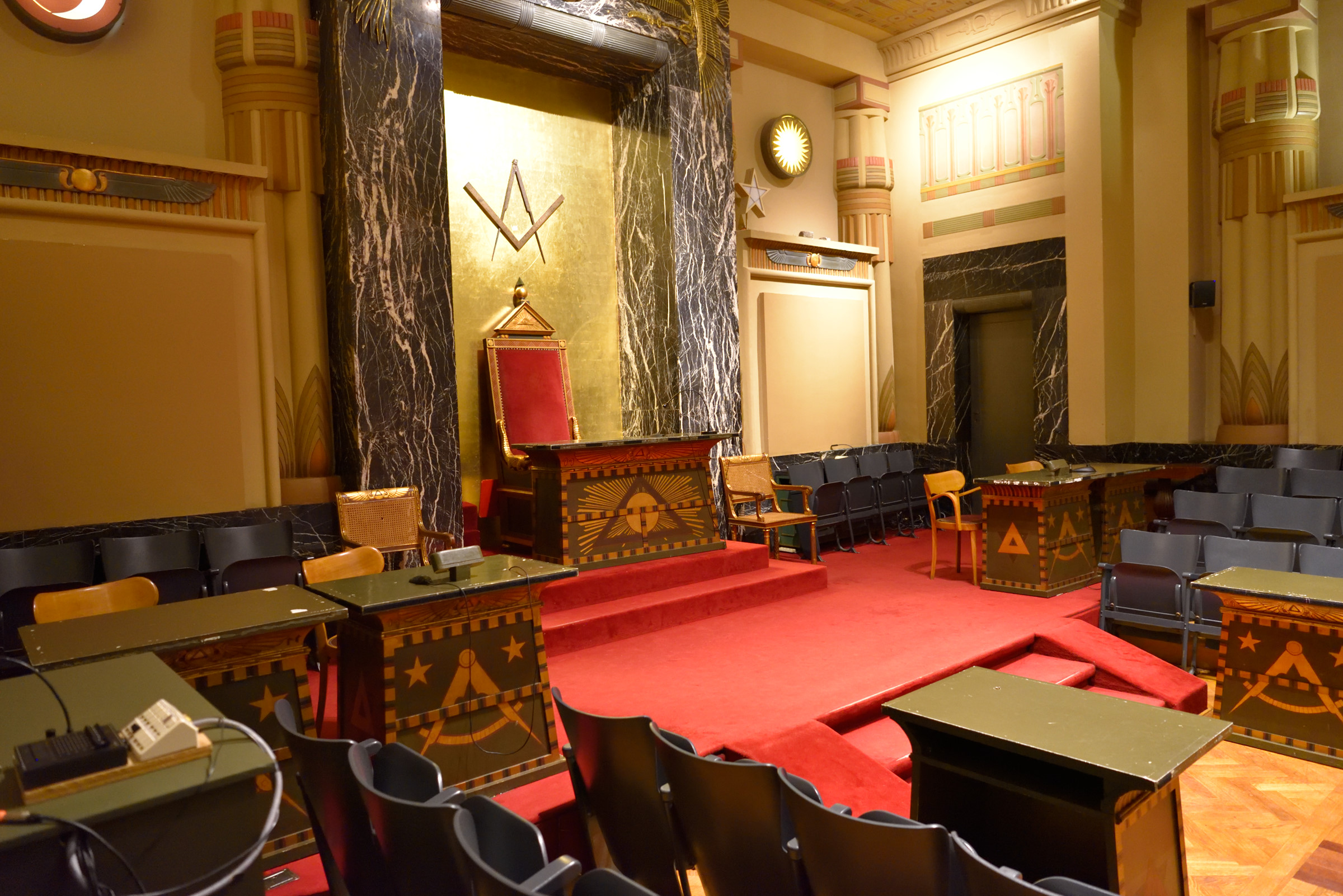 Inside a Freemasonry loge in Brussels